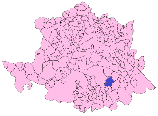 Madroñera